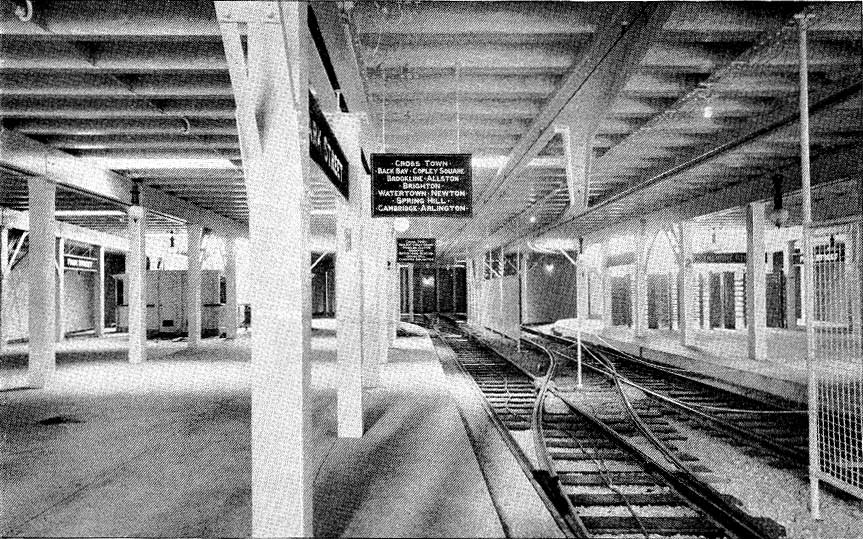 Park Street Station, Boston, Massachusetts, USA, circa 1898.